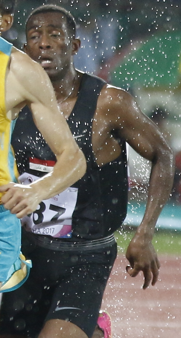 Athletes during 22nd Asian Athletics Championships in Bhubaneswar.